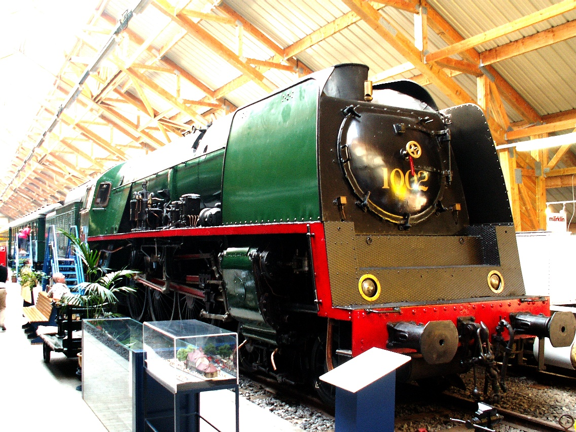 Belgian Steamer Typ 1 as seen at the Treignes railway museum of heritage railway CFV3V (Chemin de fer à vapeur des 3 Vallées) in the very south of Belgium. This one is owned by the belgian historic public rail operator SNCB and lent to this museum considering it has itself no exhibition site for heritage rolling stock.